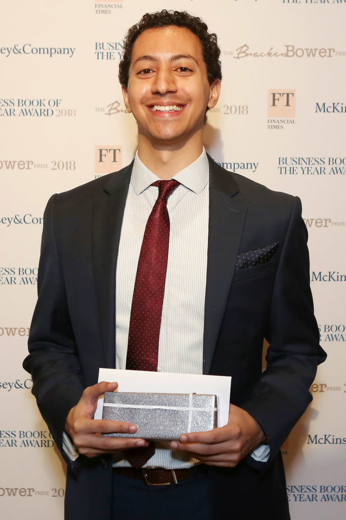 2018 Financial Times/McKinsey Bracken Bower Prize The National Gallery, London Andrew Leon Hanna, winner of the Bracken Bower prize Picture By Gareth Davies